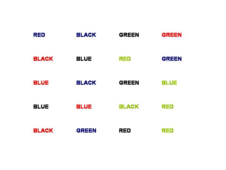 Stroop test example